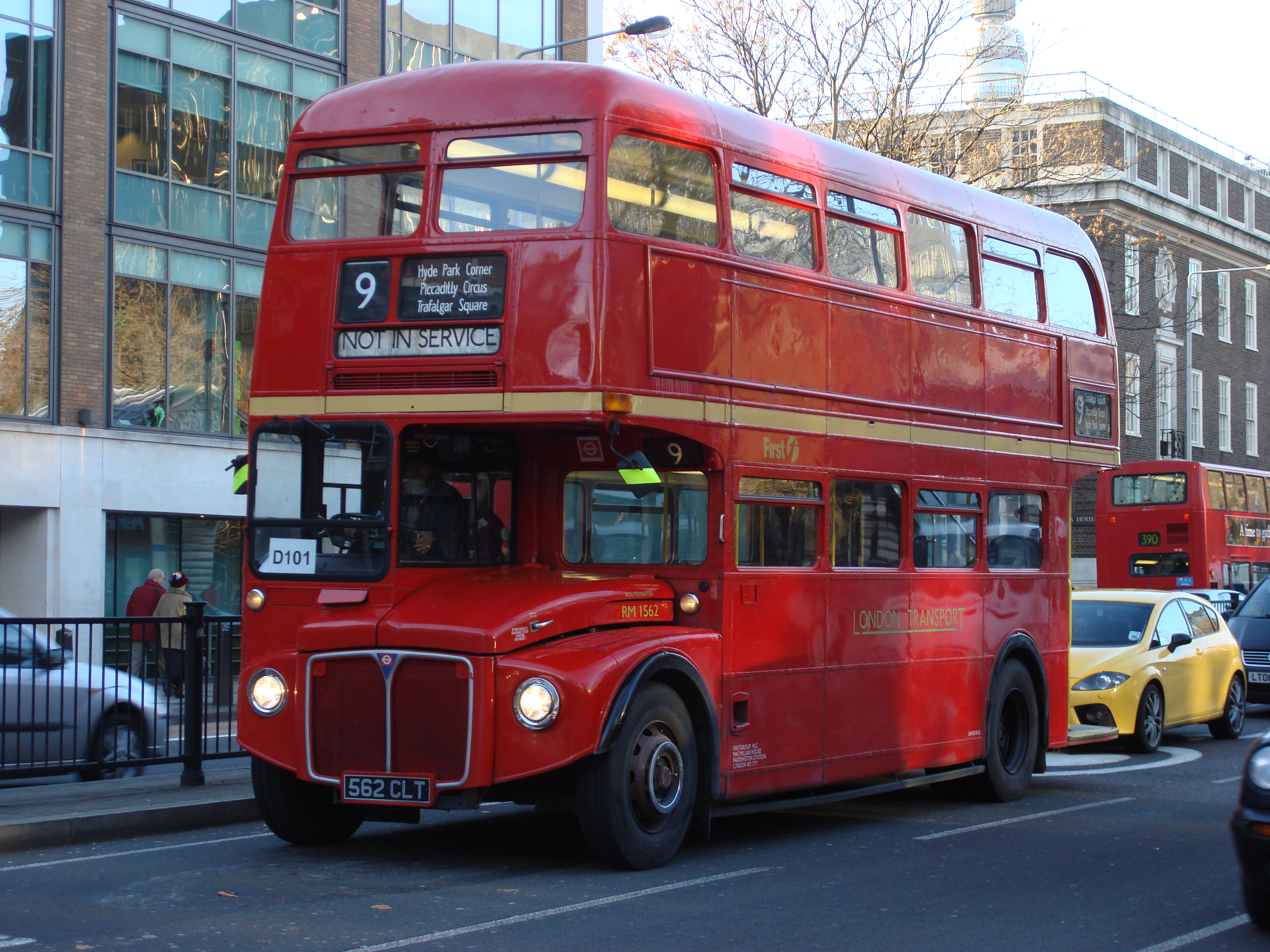 First London Routemaster bus RM1562 (reg. 562 CLT). It is wearing the number 9 blinds for its usual duty - London Buses heritage route 9, however, it is pictured here away from the route running out of service. It is heading east along Euston Road outside Euston Station (the Quaker's HQ Friends House is the older building in the background, and a route 390 bus passes on the far side of the road).